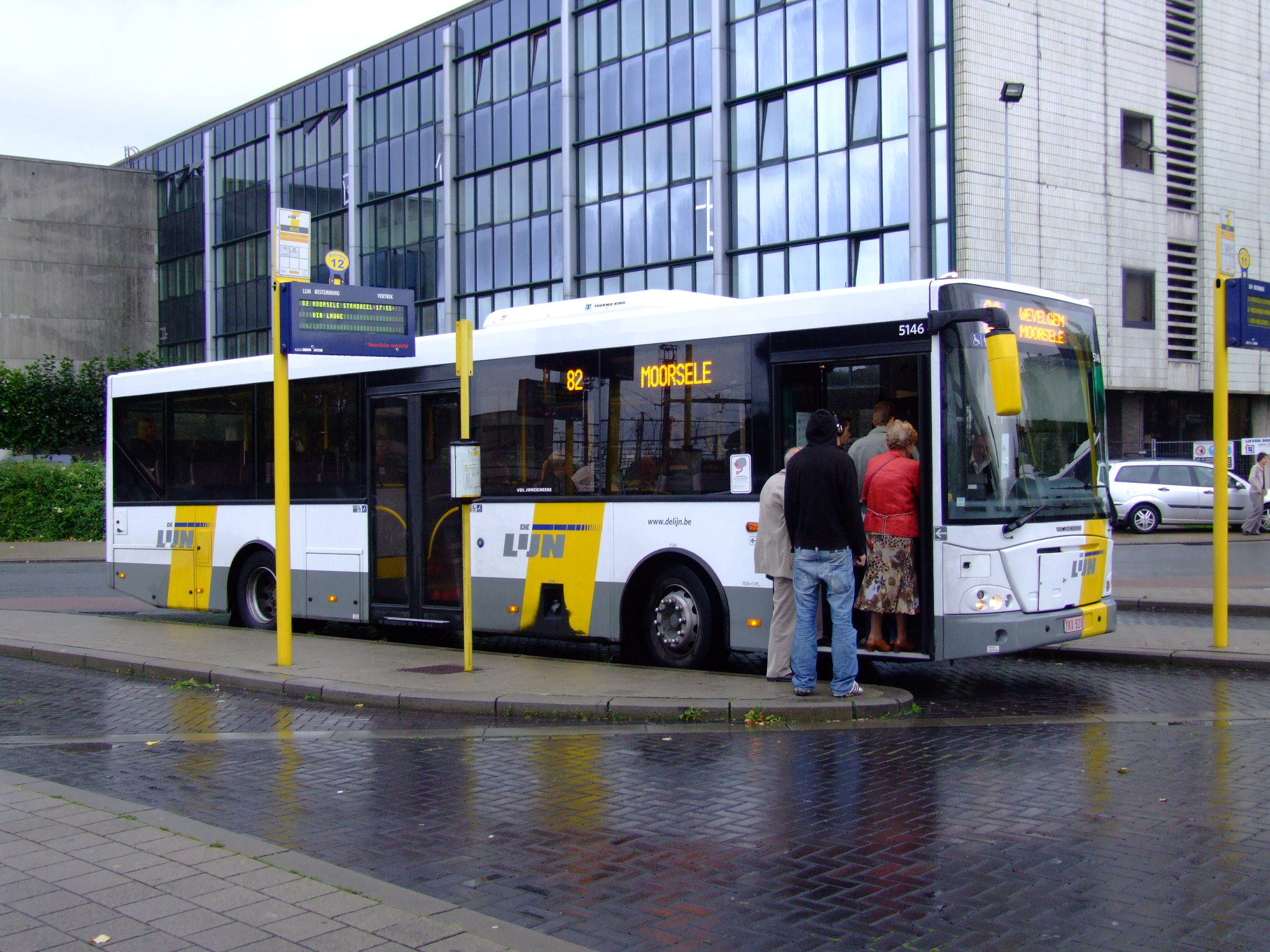 Kortrijk train station Belgium and the bus station in front.